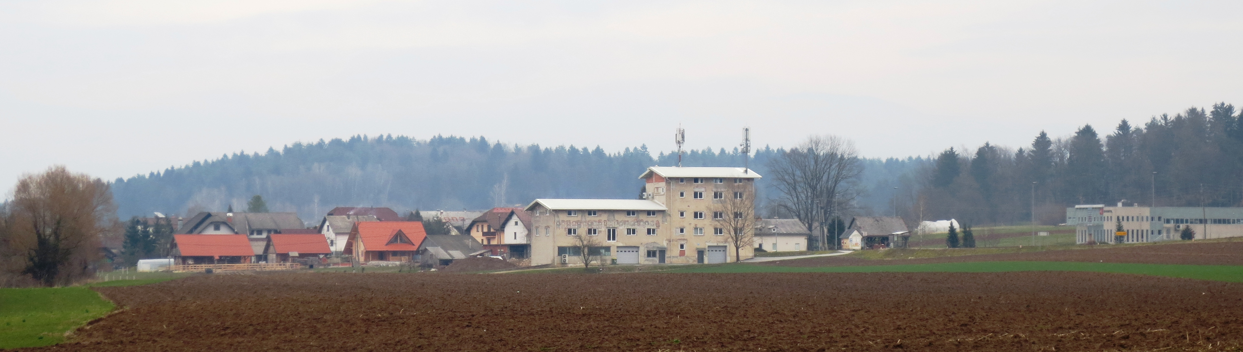 Jurka vas Straža